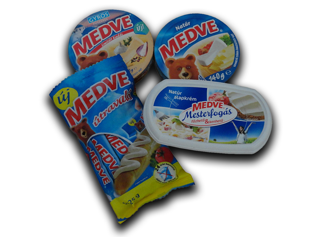 Medve (Bear) - hungarian cheese